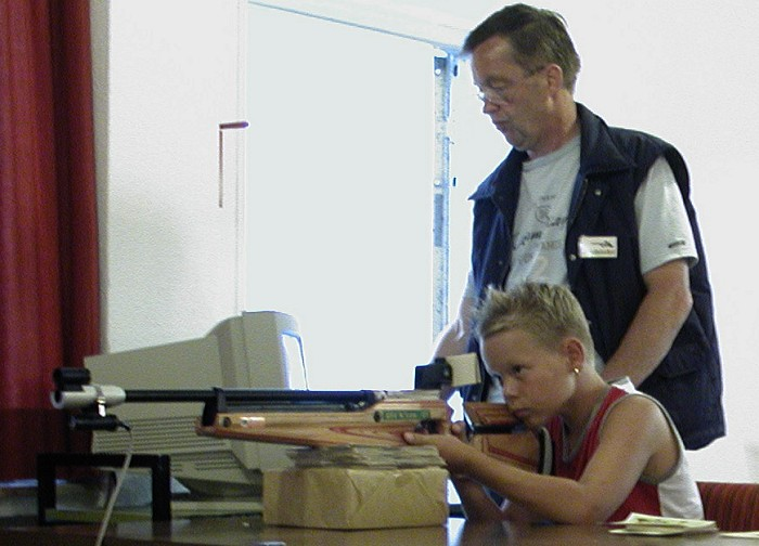 Laser light adaptor on air-rifle